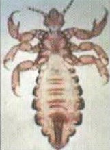 Head louse